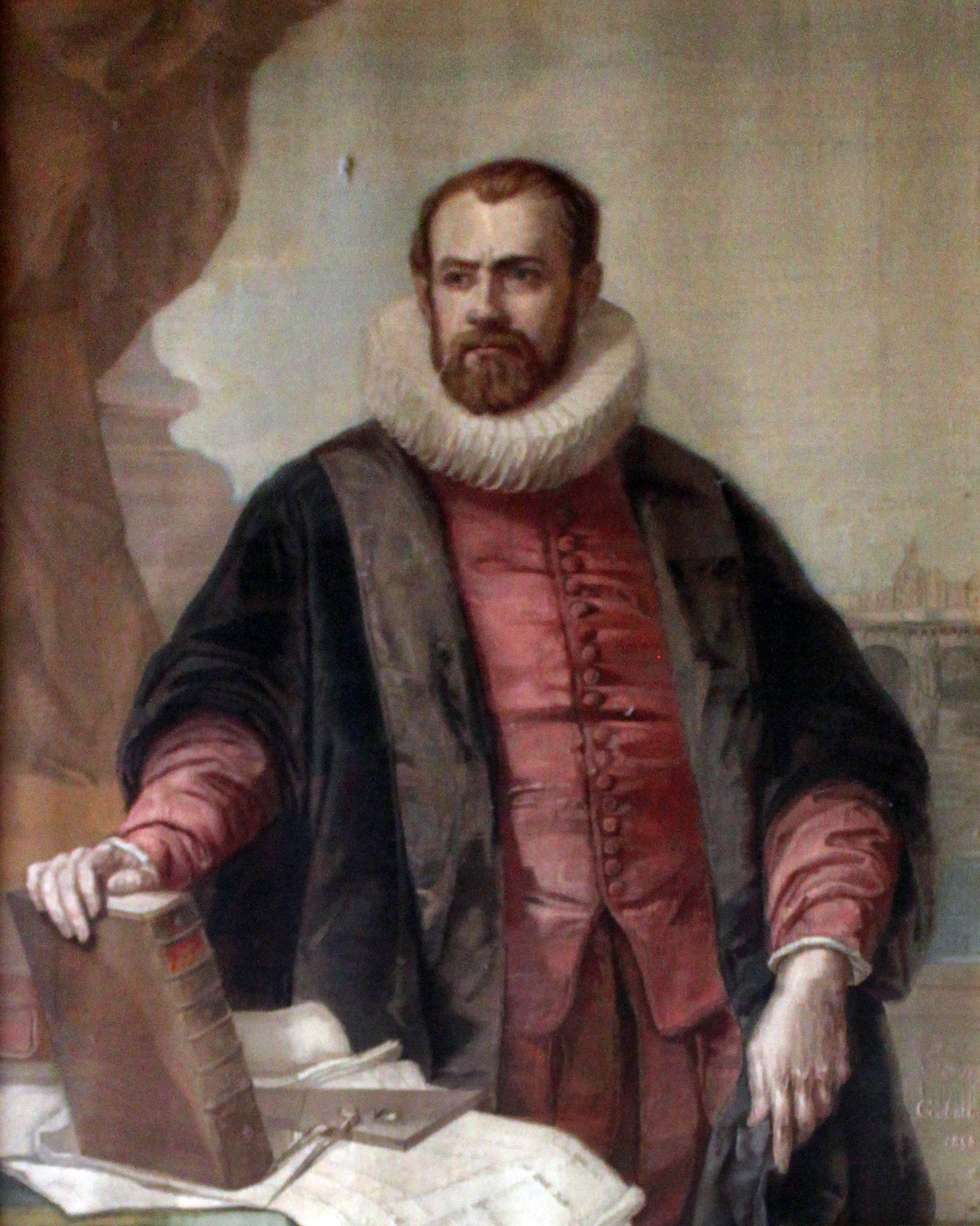 Gobelins tapestry portrait of the French architect Jacques II Androuet du Cerceau (1550–1614), located in the Galerie d'Apollon of the Louvre. The tapestry was executed by Albin Mesnel after a cartoon by Joseph Beaume (Musée d'Orléans).